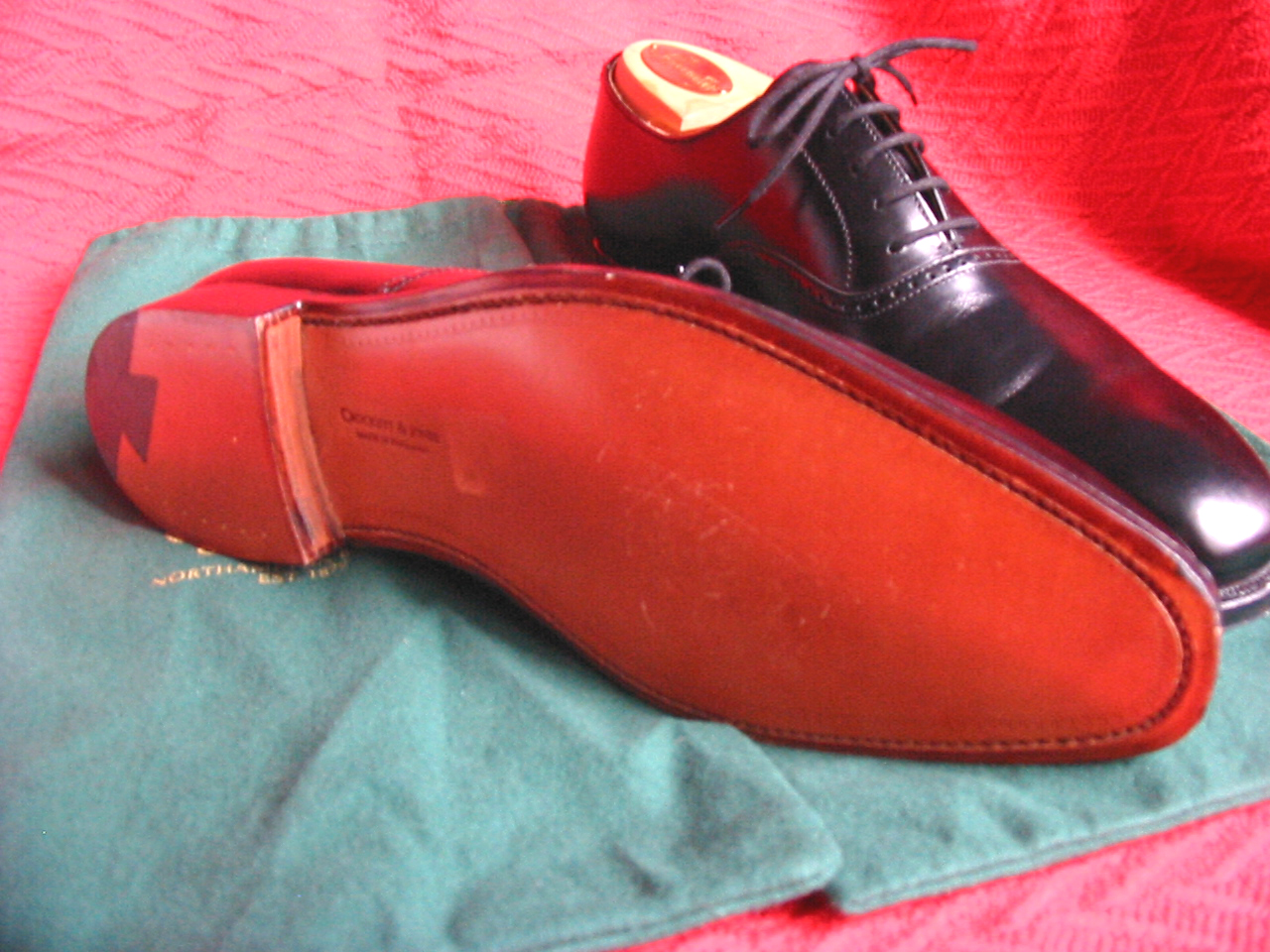 Crockett & Jones men's dress shoes, type Dalton, black calf leather, Goodyear construction